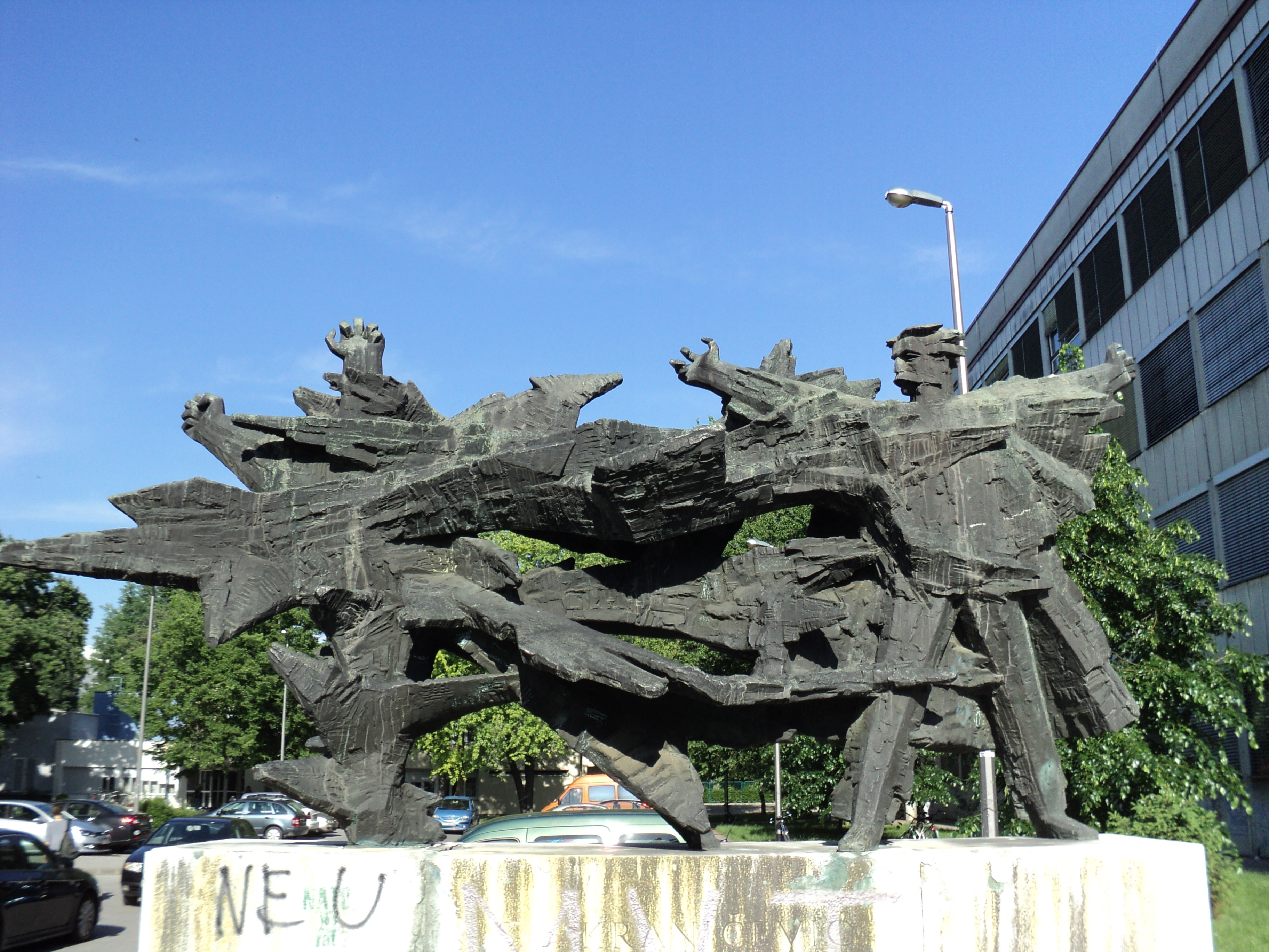 Monument of Silvije Strahimir Kranjčević in front of the Faculty of humanities and social sciences in Zagreb.